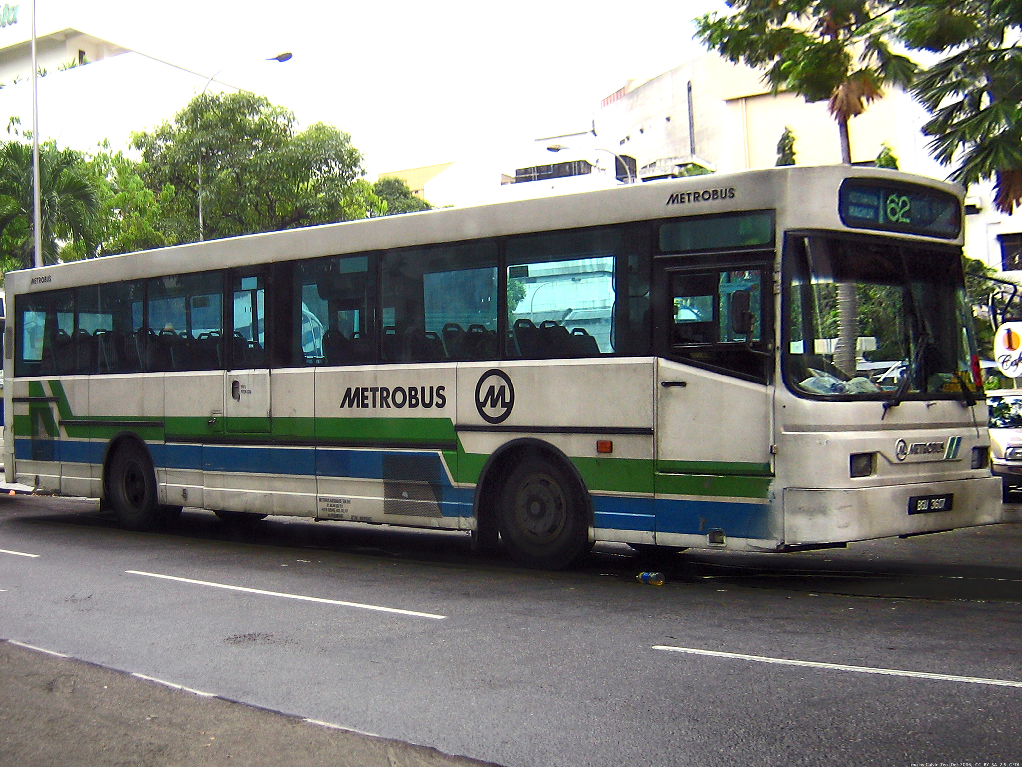 A Metrobus Nationwide Bus operating on Route 62 near Kota Raya.